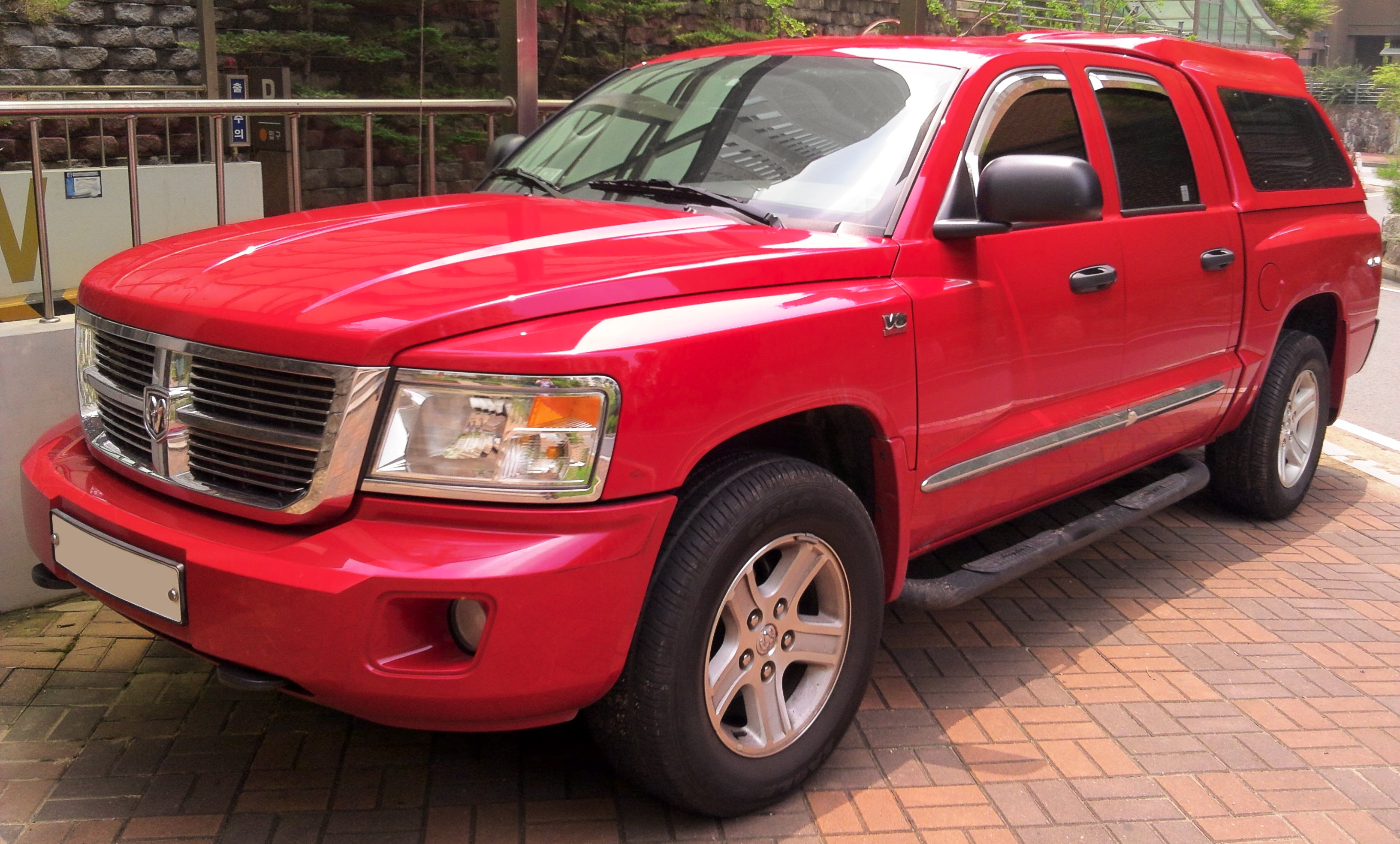 닷지 다코타 후측면(좌).